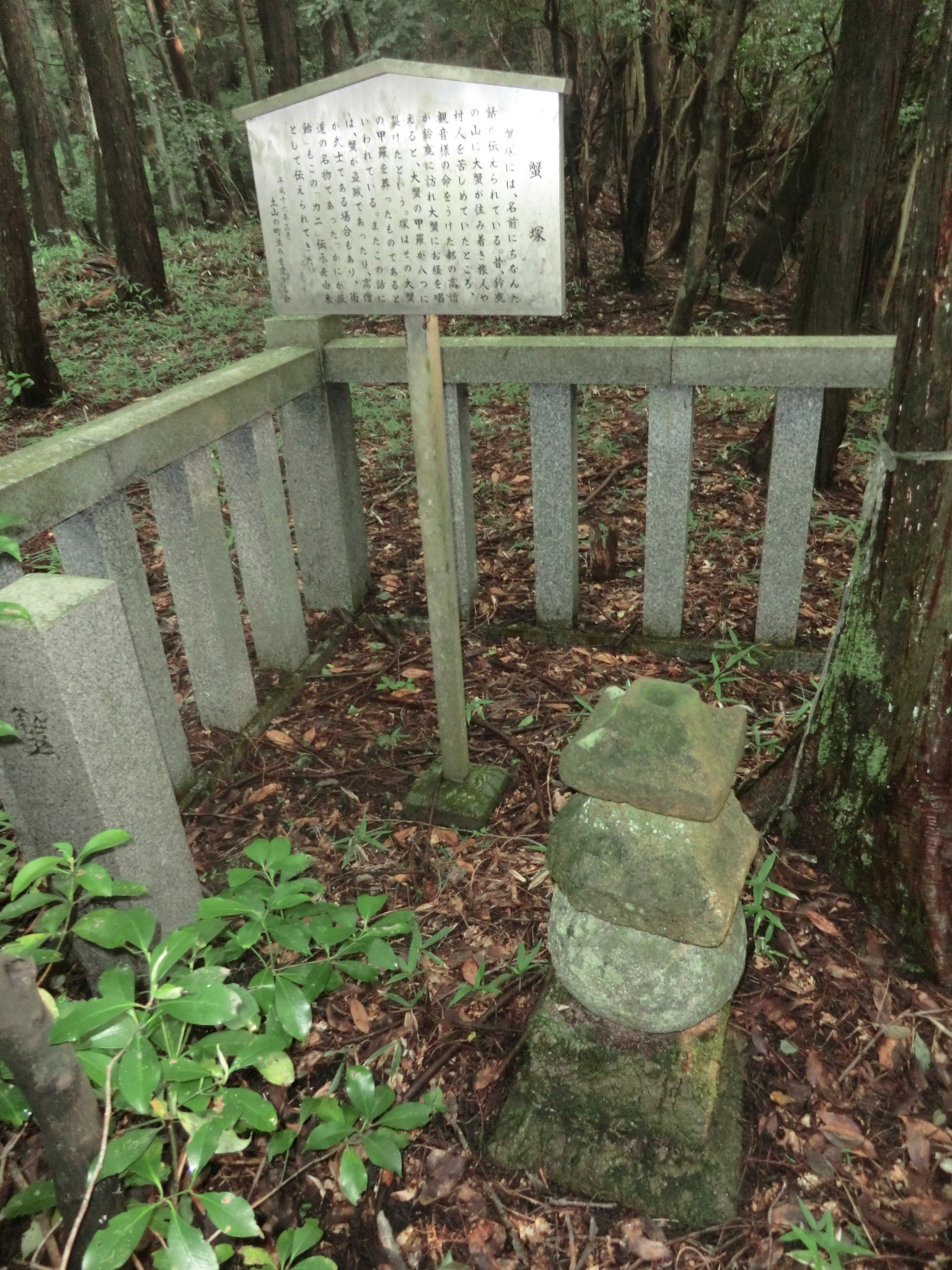 Kanizuka, Tsuchiyama, Koka, Shiga, Japan